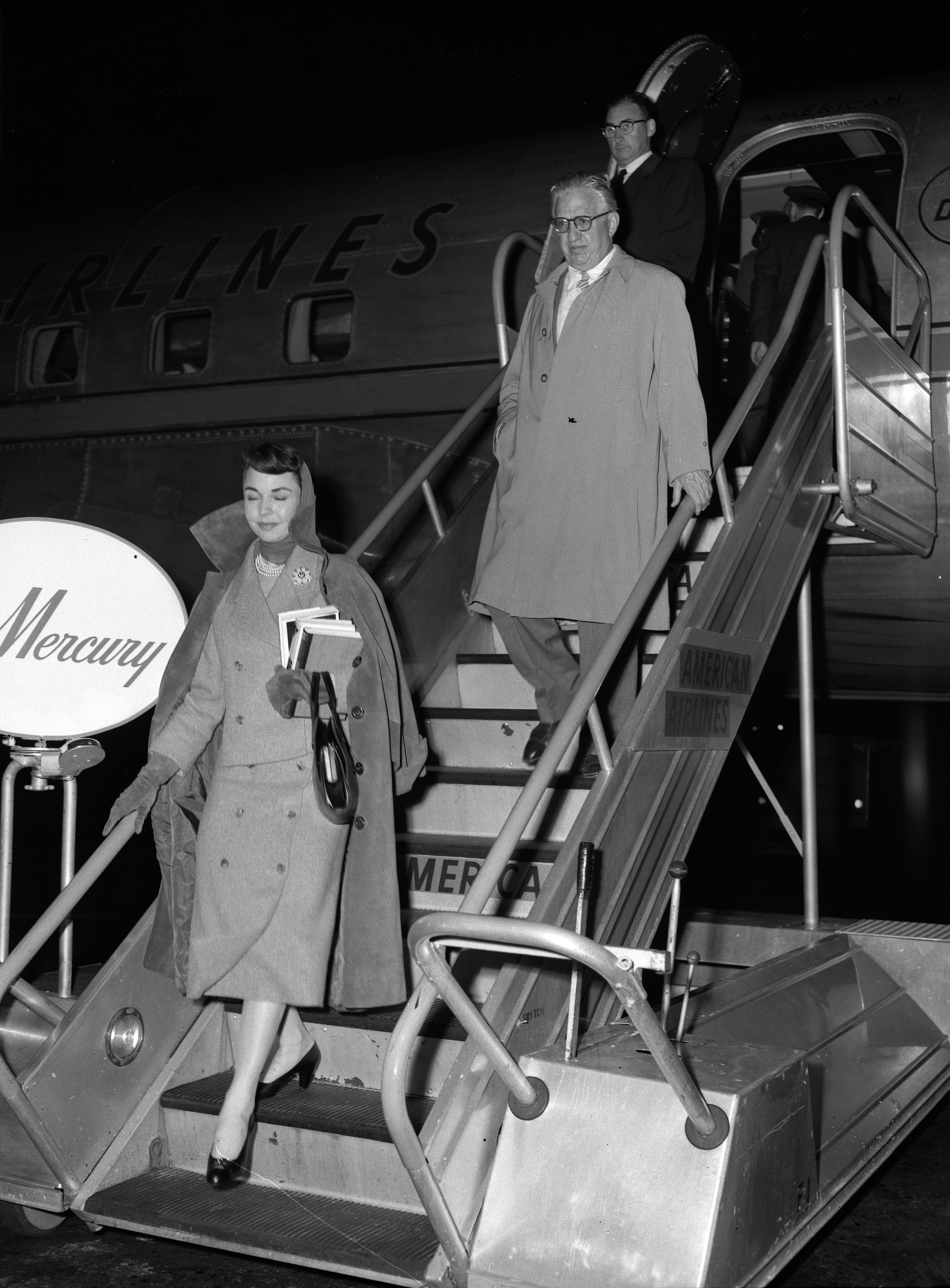 Actress Jennifer Jones and husband, producer David O. Selznick disembarking plane at Los Angeles International Airport, in Los Angeles, California in 1957.